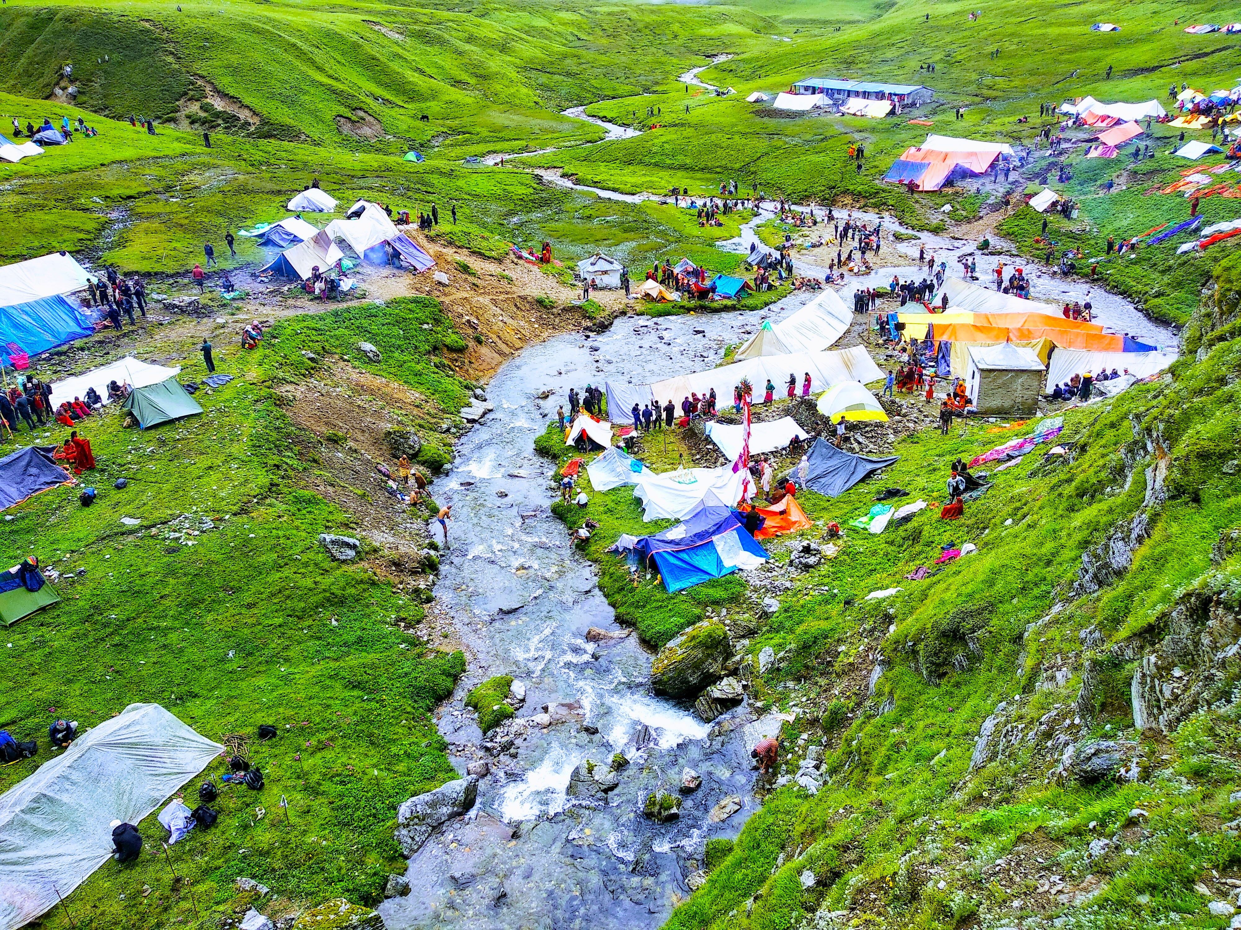 Triveni, is the tributaries of three rivers. It is the river which divides Bajura with Kalikot. People take bath before they visit Badimalika Temple.